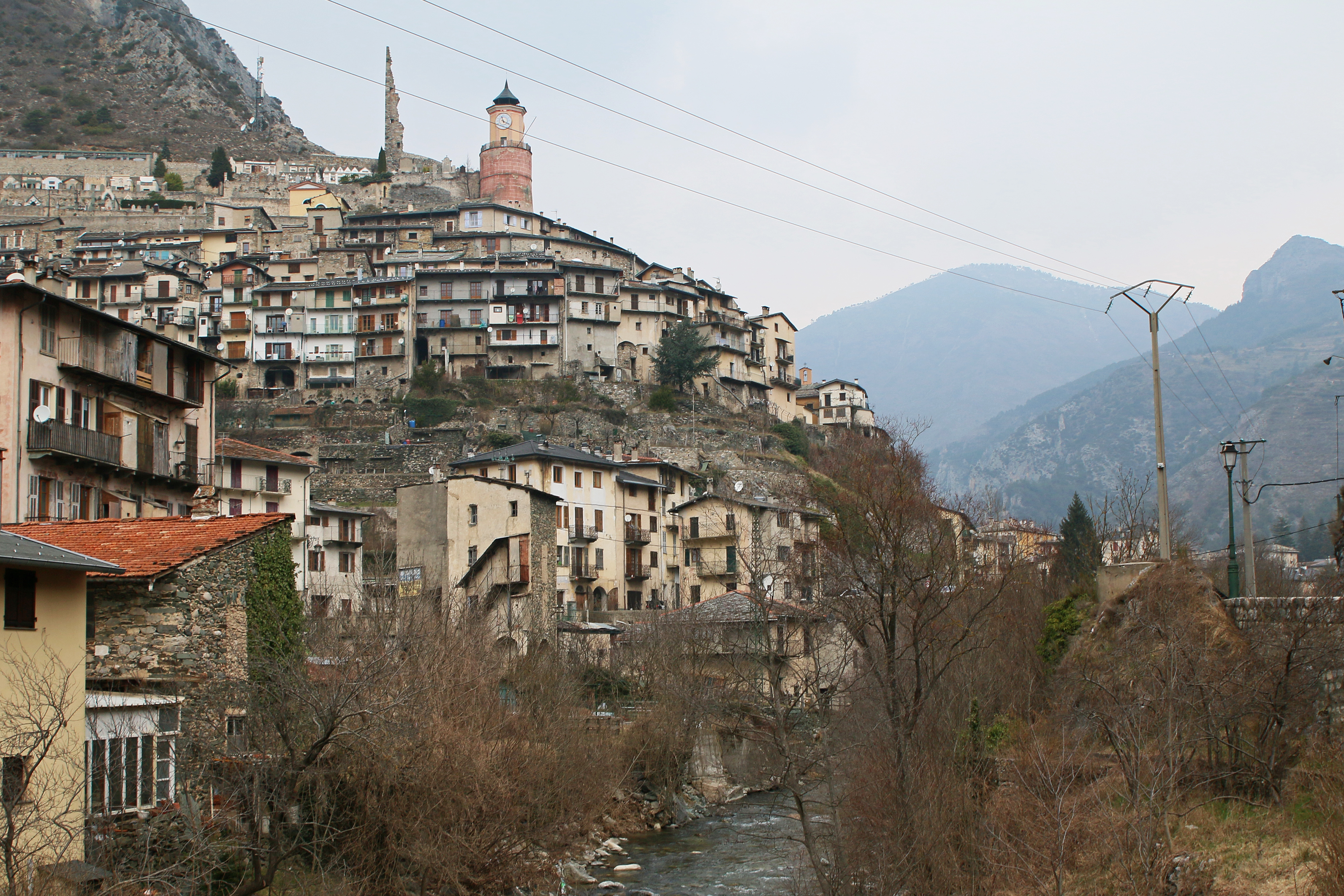 Commune of Tende in the department Alpes-Maritimes